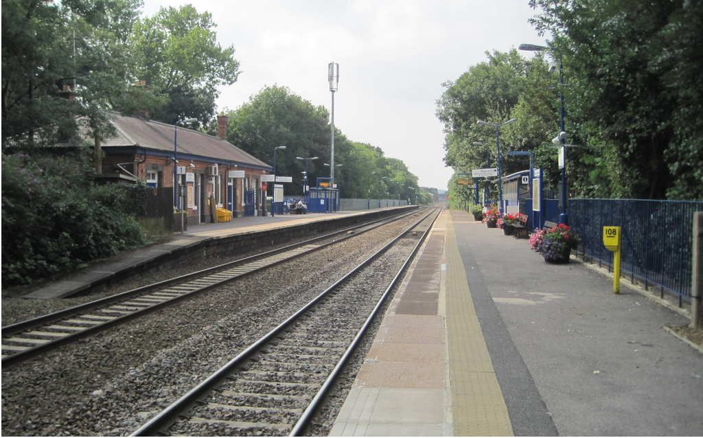 Warwick railway station, Warwickshire Opened in 1852 by the Great Western Railway on the line from Leamington Spa to Birmingham Snow Hill. View west towards Warwick Parkway and Birmingham.